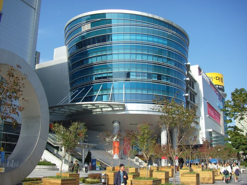 Yongsan Station